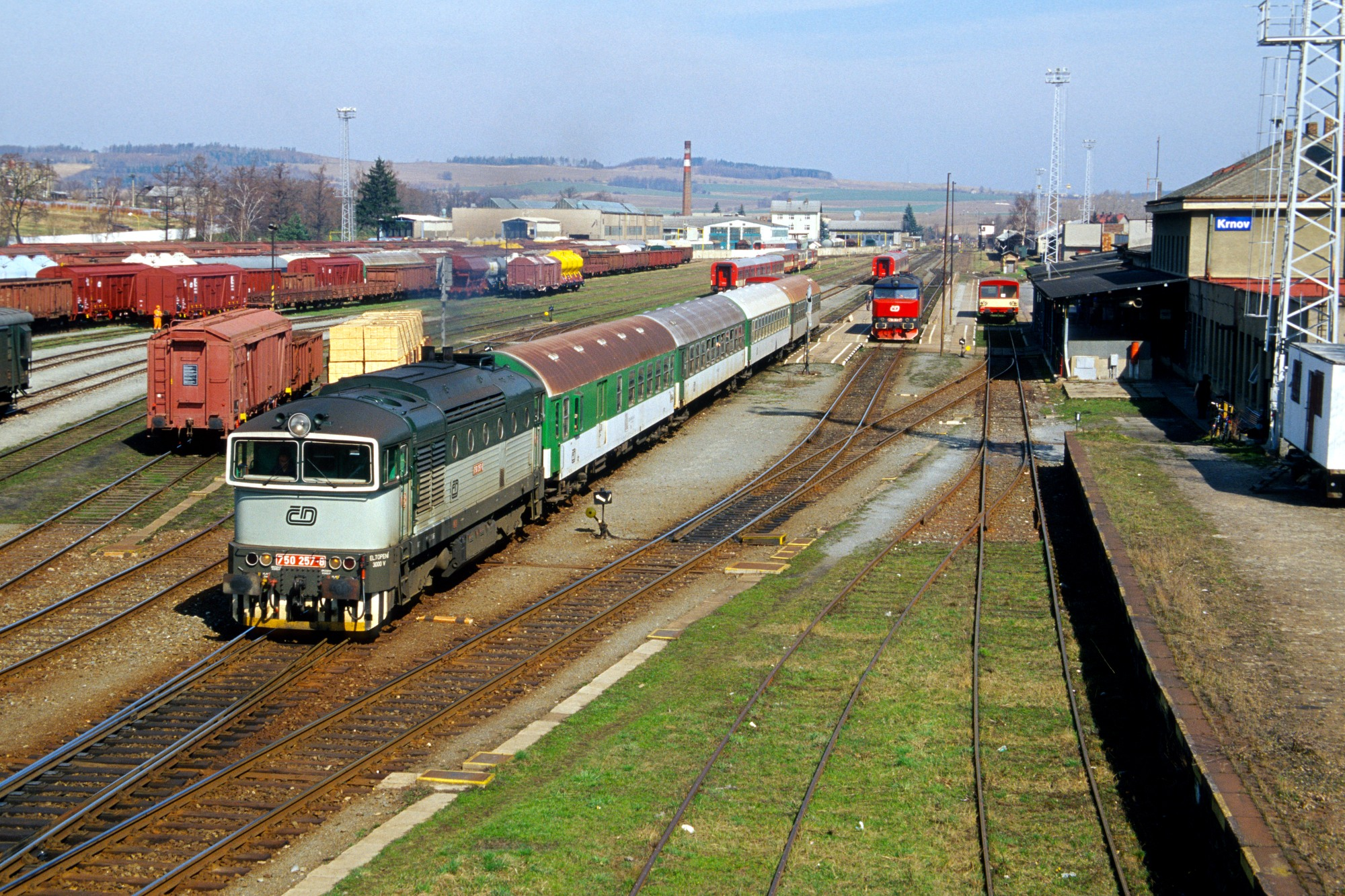 A Passenger train with class 750 diesel engine leaving Krnov station